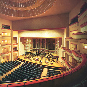 Audience chamber and stage of Belk Theater, the biggest one of three theaters in the North Carolina Blumenthal Performing Arts Center in Charlotte, North Carolina, United States.